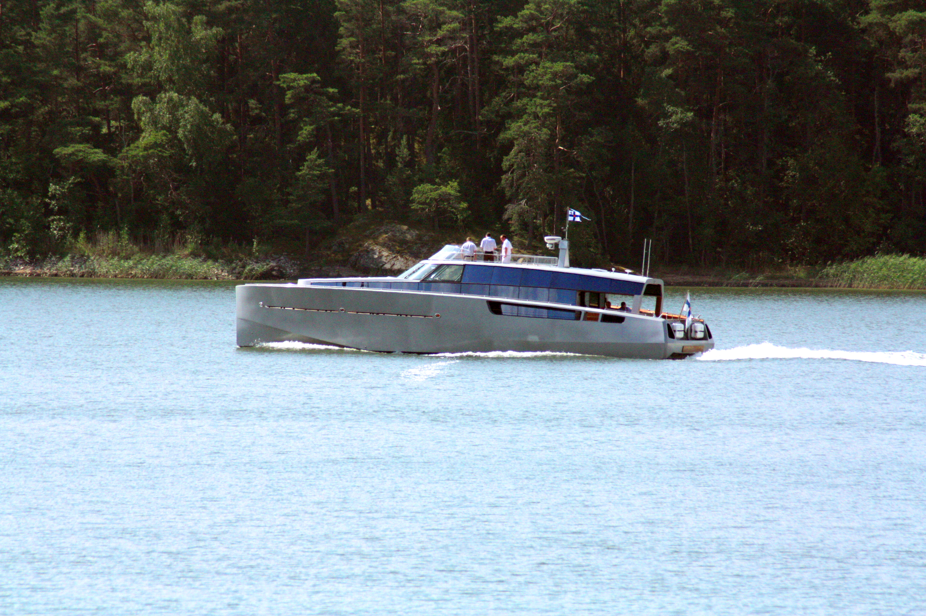 Finnish President's boat Kultaranta VIII leaving the summer residence.